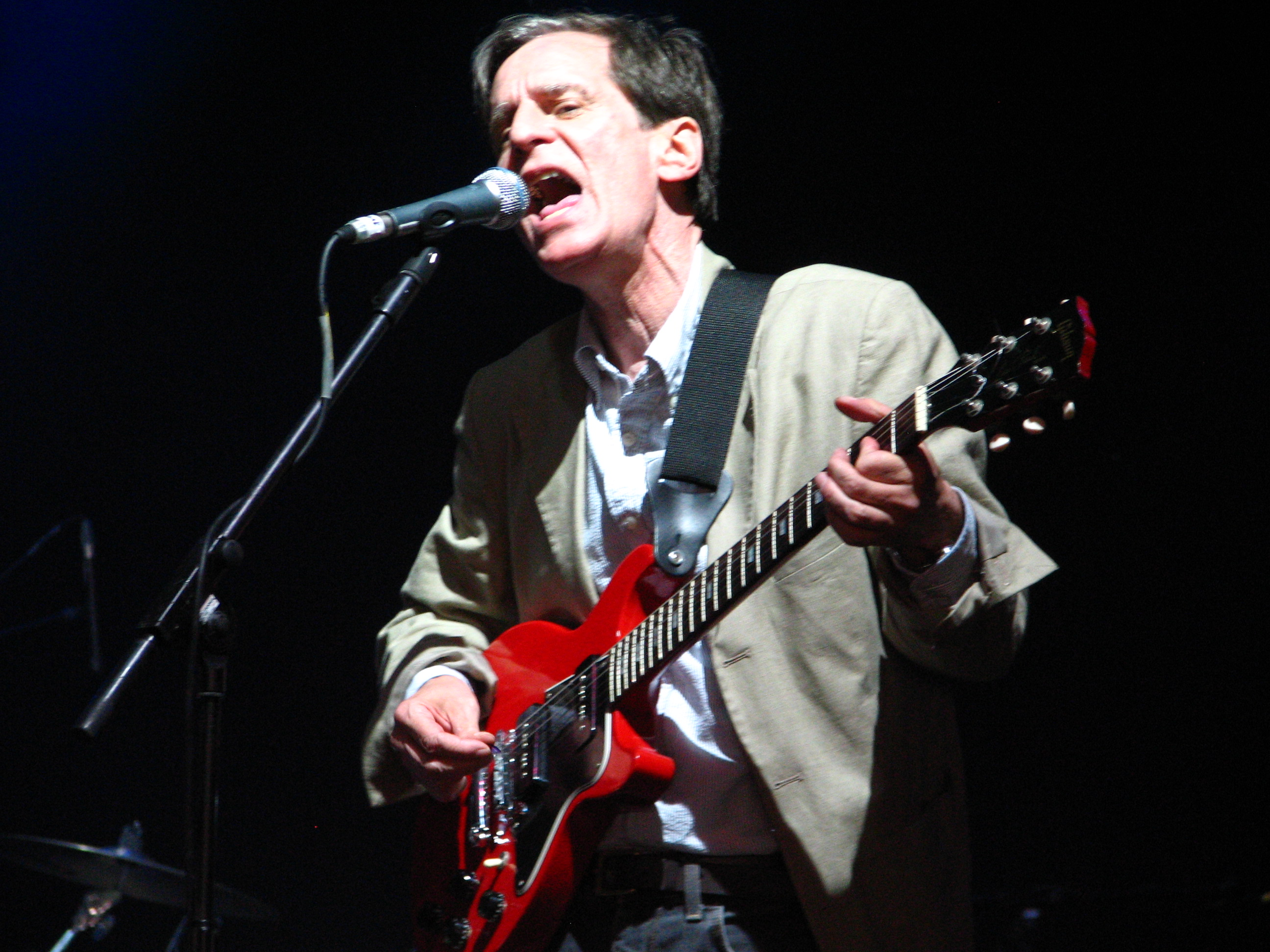 Big Star on stage at Hyde Park, London, UK